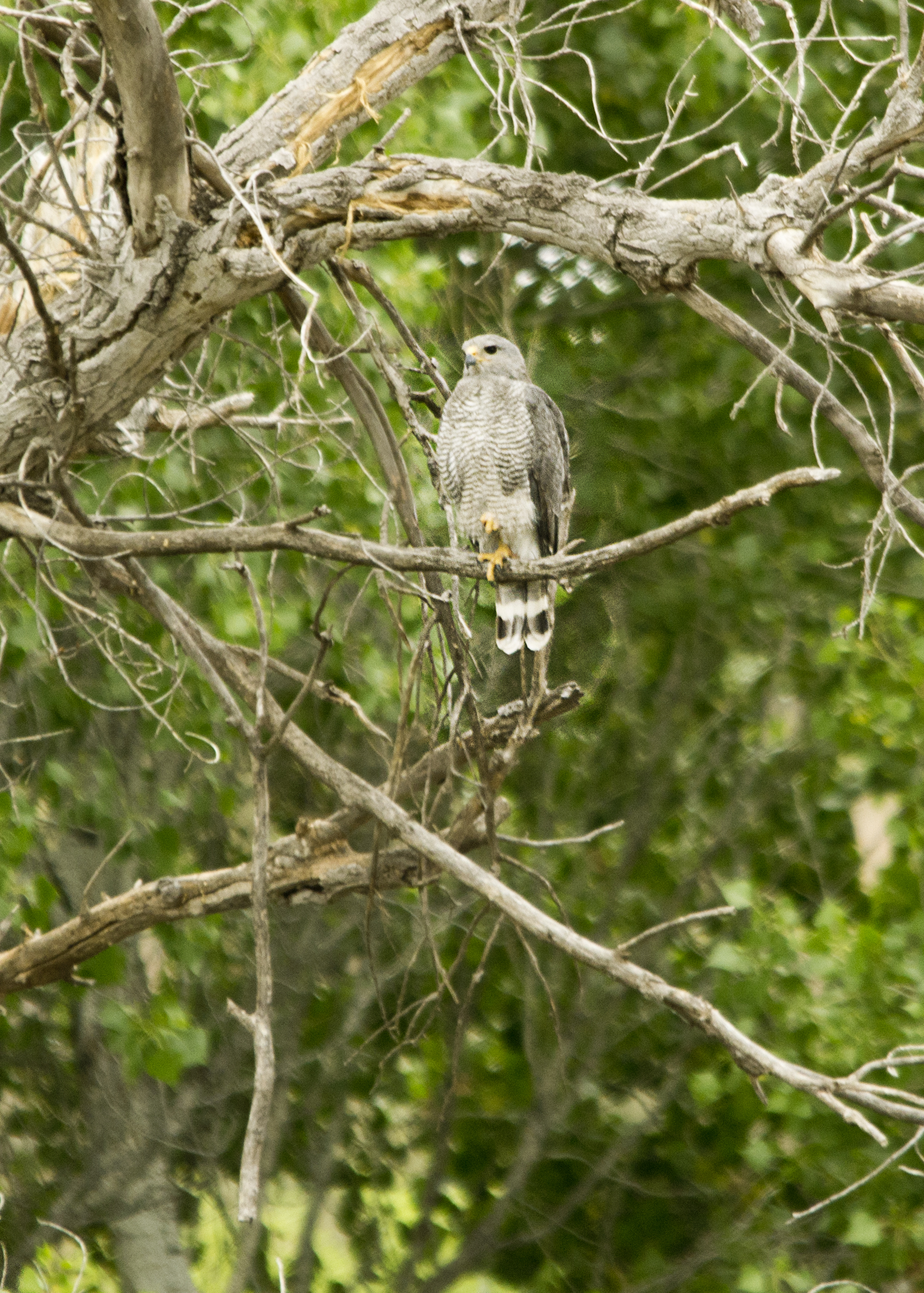 Grey Hawk seen at the Hassayampa River Preserve outside Phoenix Arizona